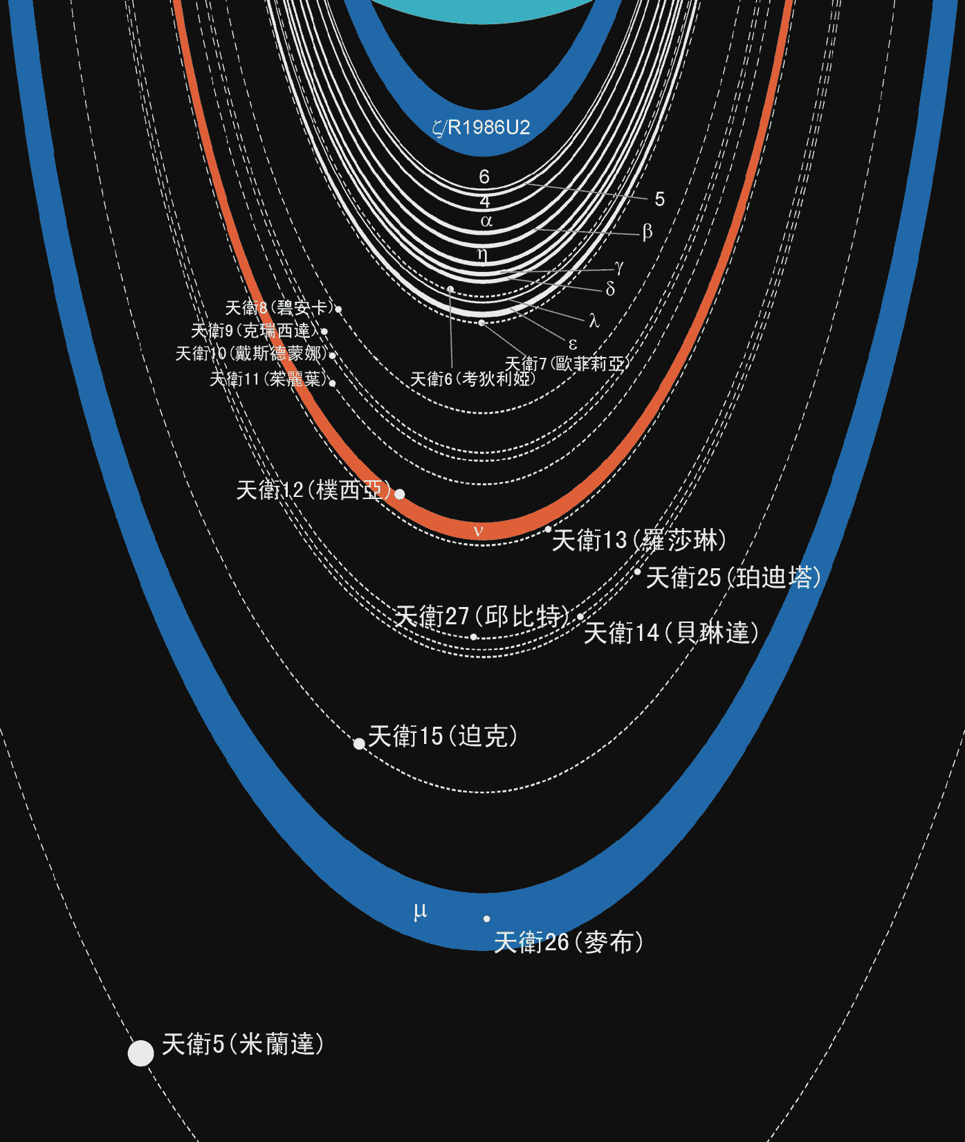 To-scale schematic of the ring and moon system of the planet Uranus.